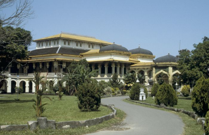 Istana Maimun, the Sultan of Deli's palace